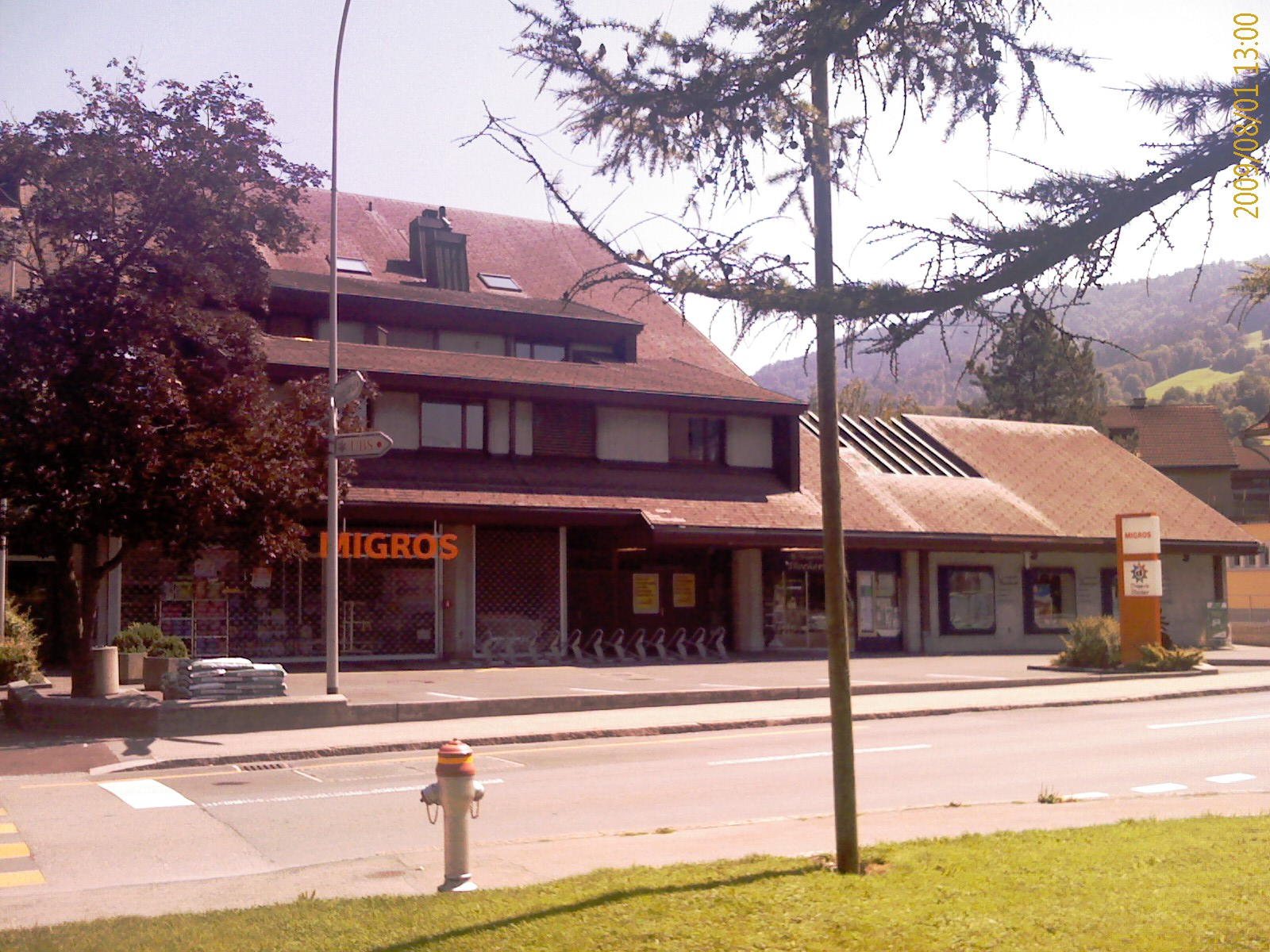 Supermarcet of Migros at Malters, canton of Luzern, SwitzerlandEsperanto: Supermerkato de Migros en Malters, Kantono Lucerno, Svislando